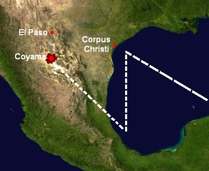 Coyame UFO Incident map. Plane (grey, gräu), UFO (white, weiß).